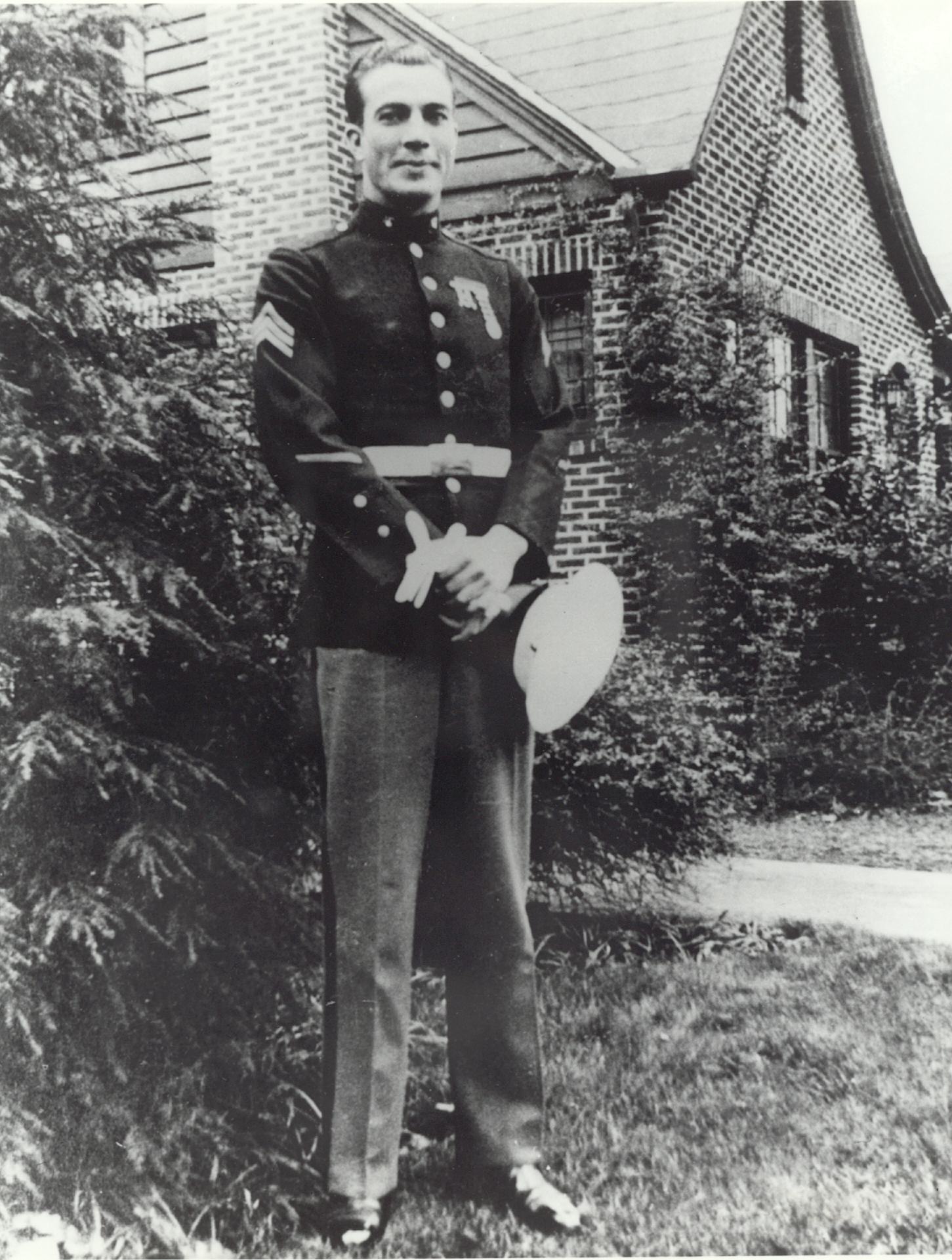 Sergeant Clyde A. Thomason, USMC; killed in action during the Marine Raider Expedition against the Japanese-held island of Makin on 17-18 August 1942; awarded the Medal of Honor for leading the raid.